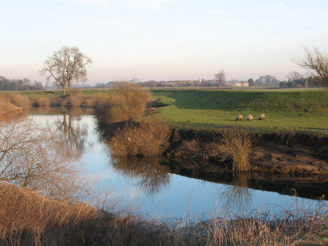 The Ure near Aldborough A quiet winter's day by the Ure, but only 3 weeks previously, floodwater had reached almost to the top of the flood bank behind the sheep.